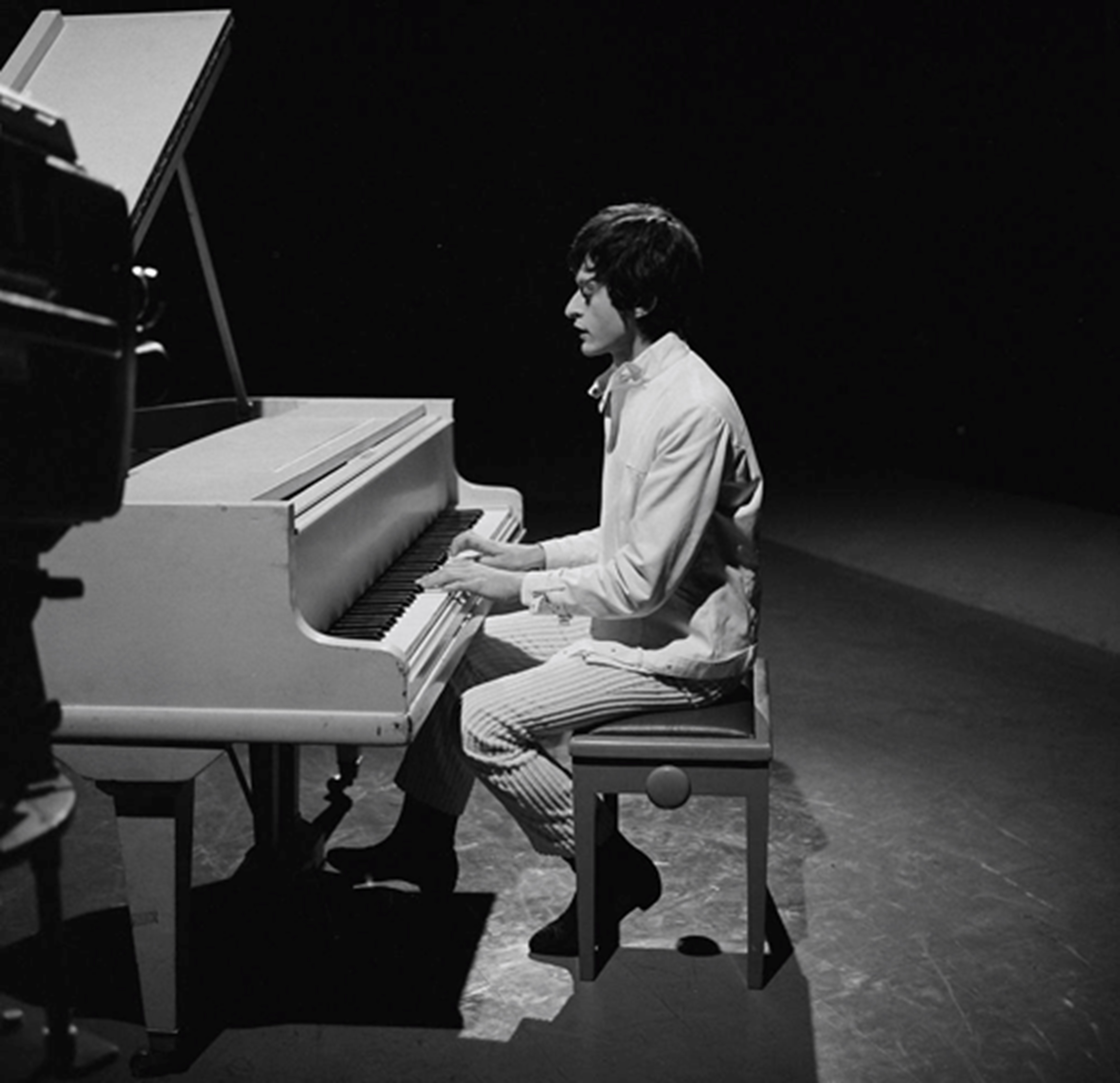 Michel Polnareff performing the songs "Love me please love me" and "Ta ta ta" on Dutch TV programme Fanclub, 14 March 1967